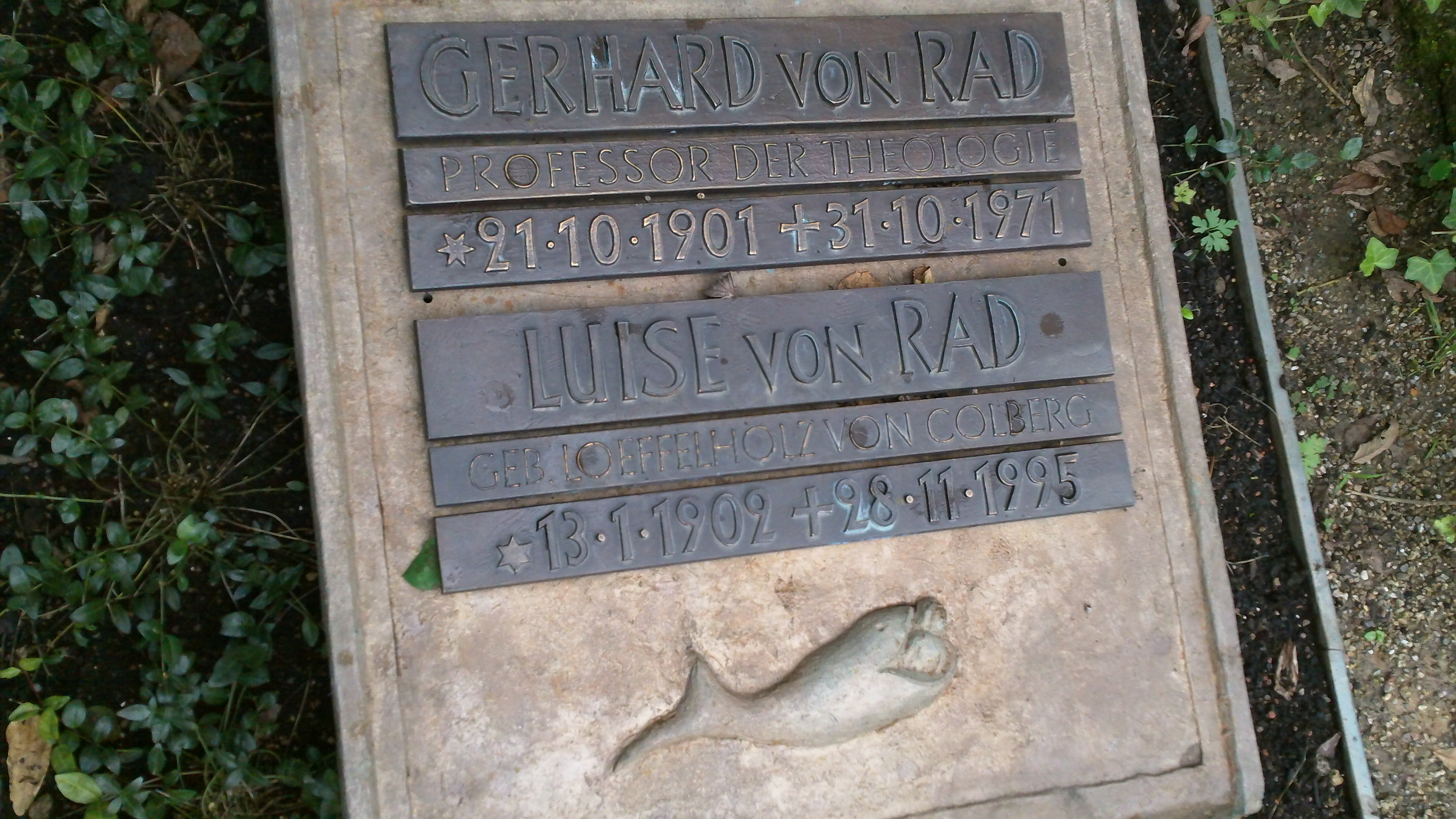 Gravesite of Gerhard von Rad in Handschusheim Cemetery of Heidelberg, Germany